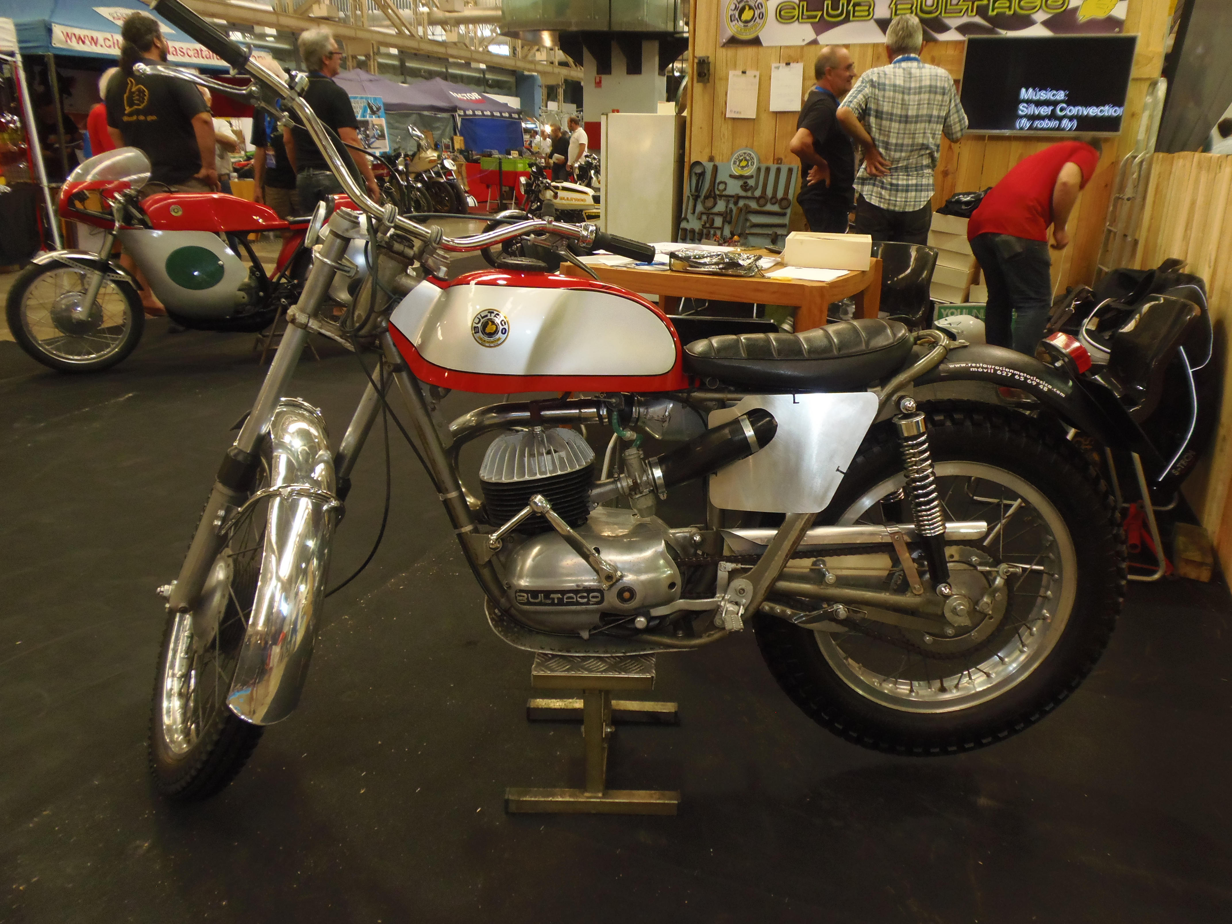 Bultaco Sherpa T Mod. 27, 1967